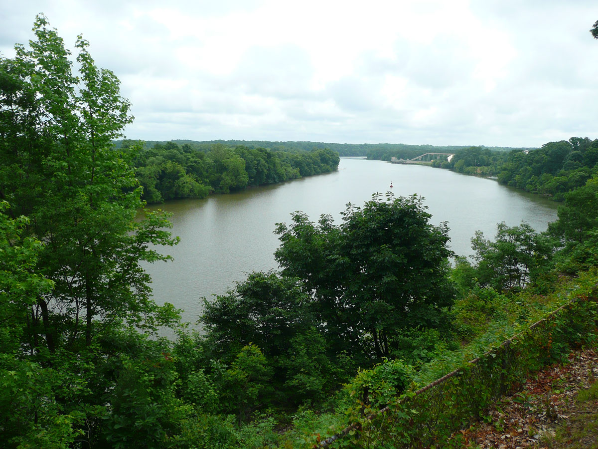 Photograph of the view down the James River from Drewry's Bluff, Virginia, USA